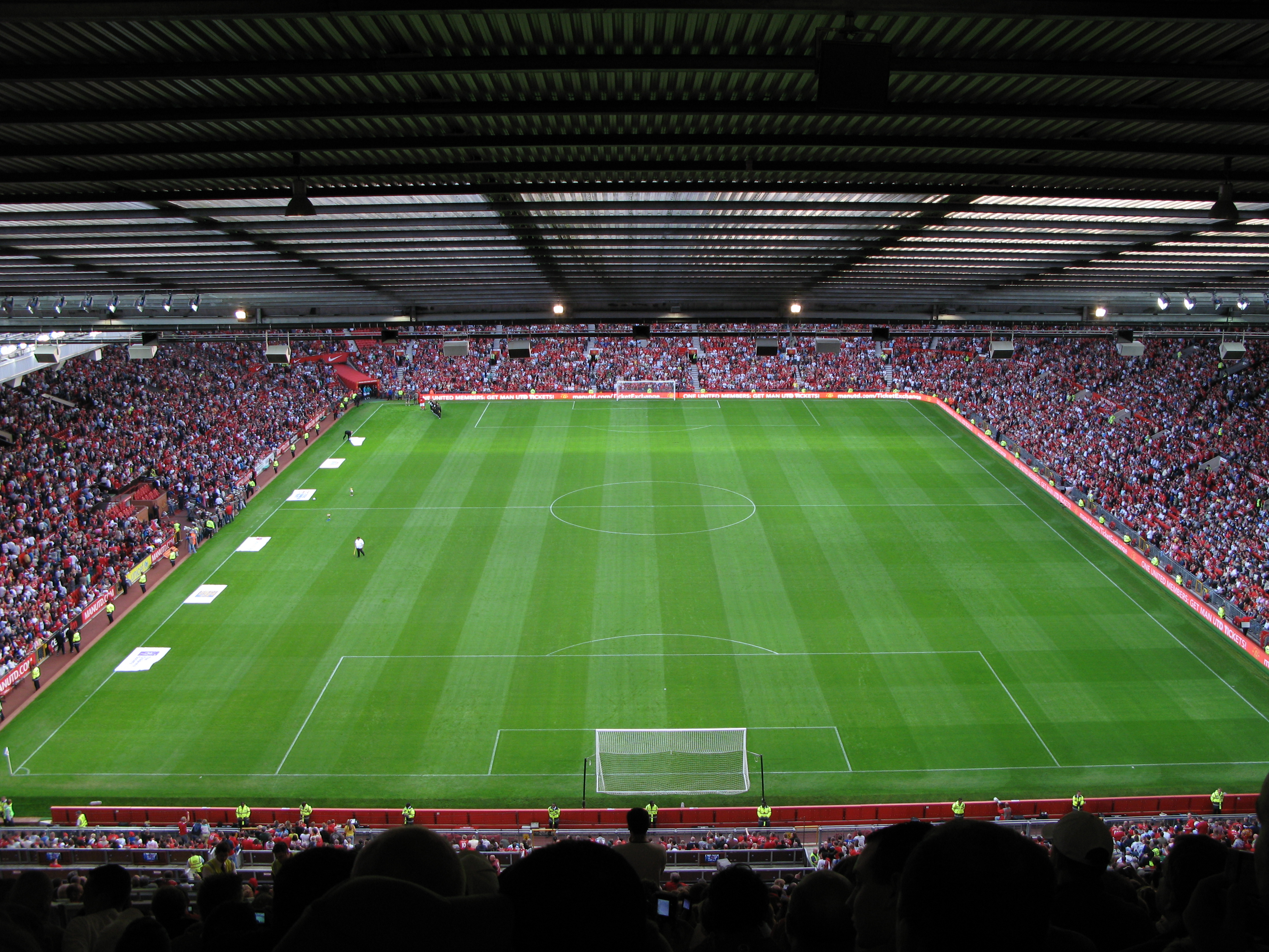 Old Trafford 1/08/07 Pre Season Friendly v Inter Milan